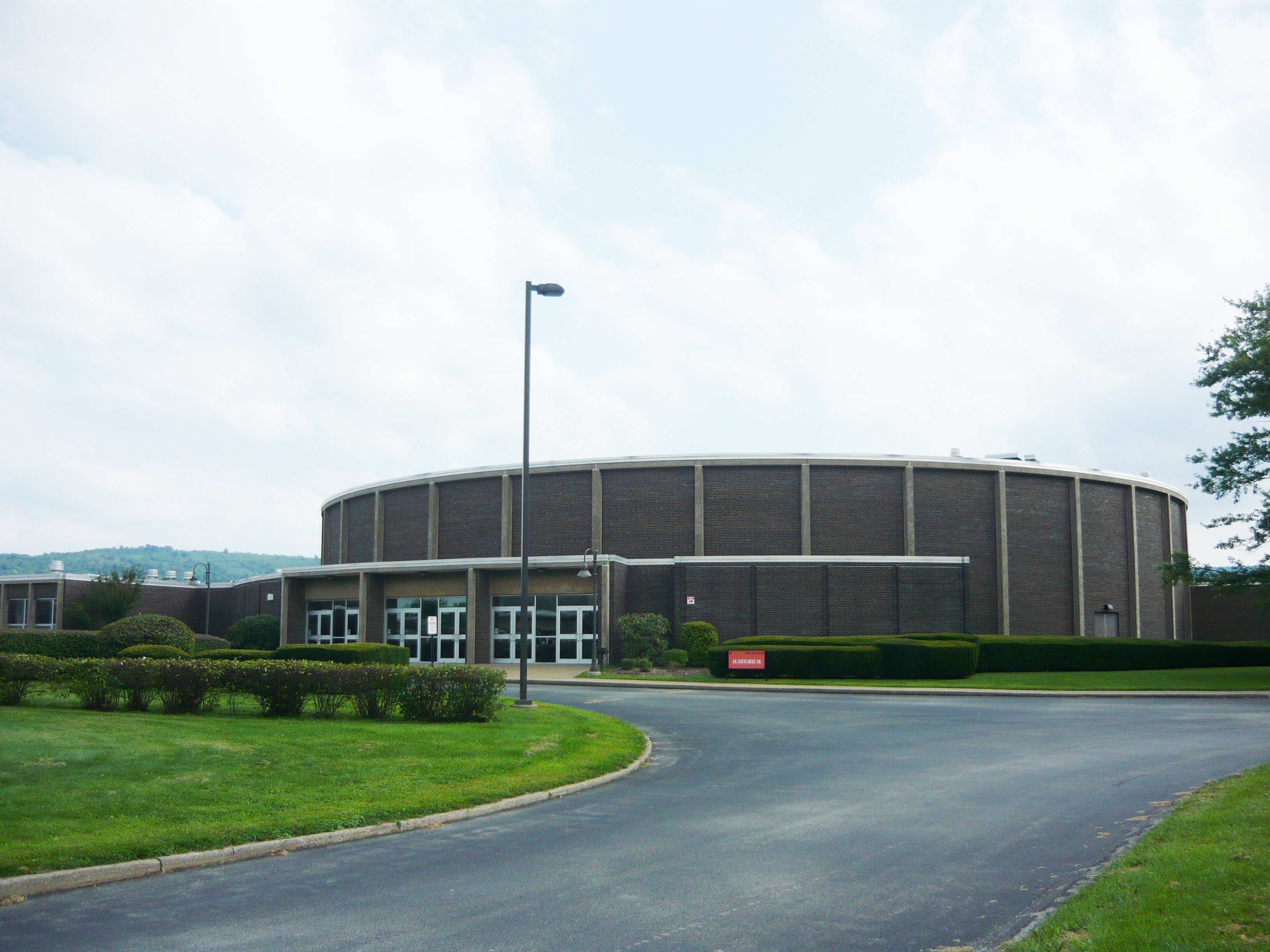 Auditorium of Greater Latrobe Senior High School, 131 High School Road, Latrobe (actually in Unity Township), Westmoreland County, Pennsylvania. Built 1967. Architects: Bartholomew, Roach, Moyer, & Walfish.